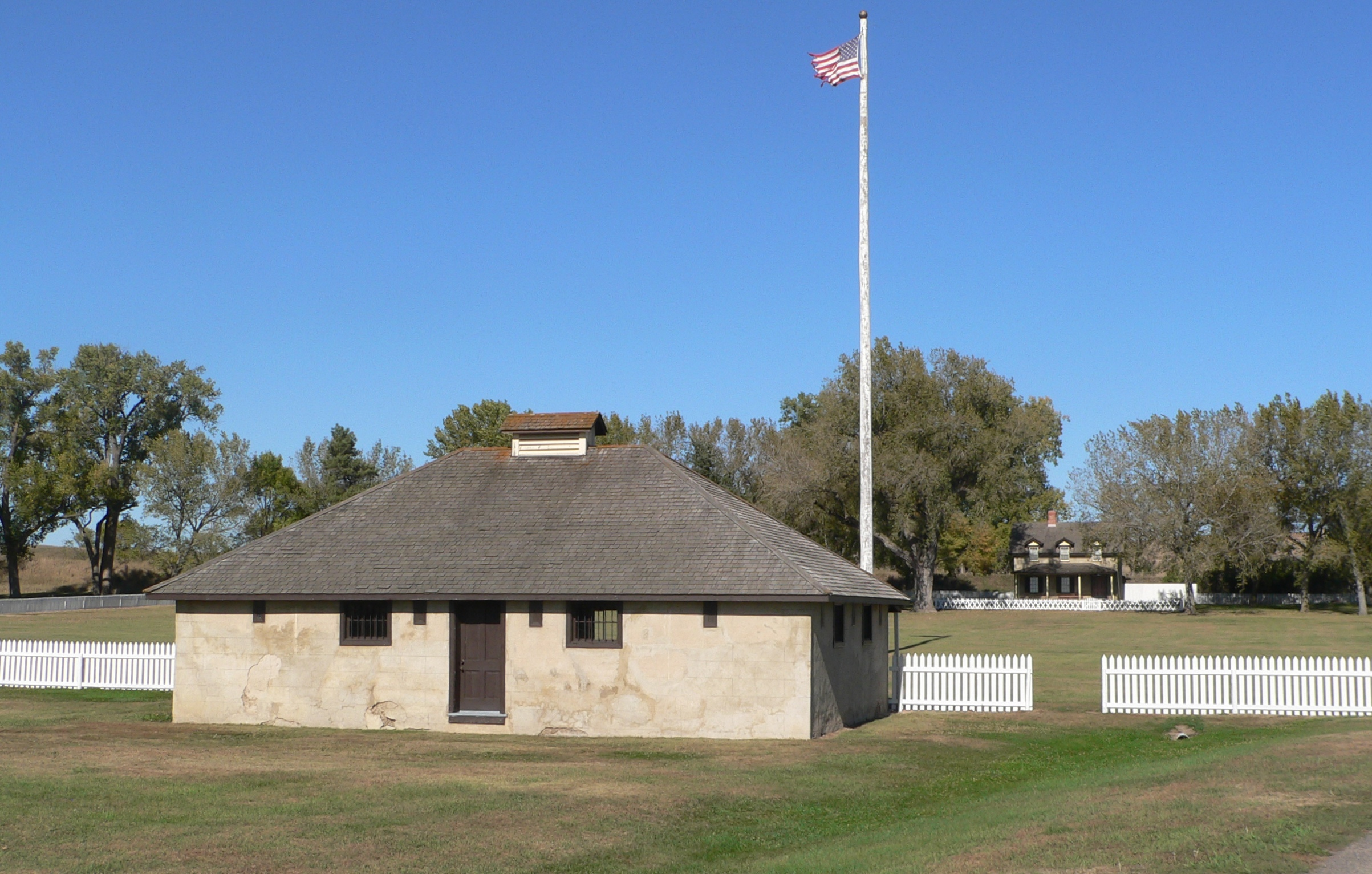 Guardhouse at Fort Hartsuff, located north-northwest of Elyria in rural Valley County, Nebraska.